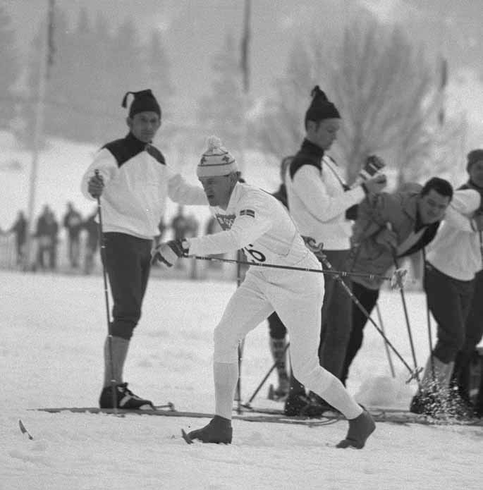 Assar Rönnlund, Grenoble Olympics